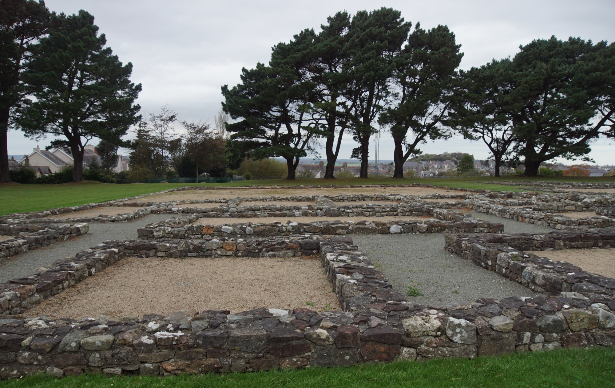 Segontium Roman Fort, Caernarfon, Wales. Praetorium.